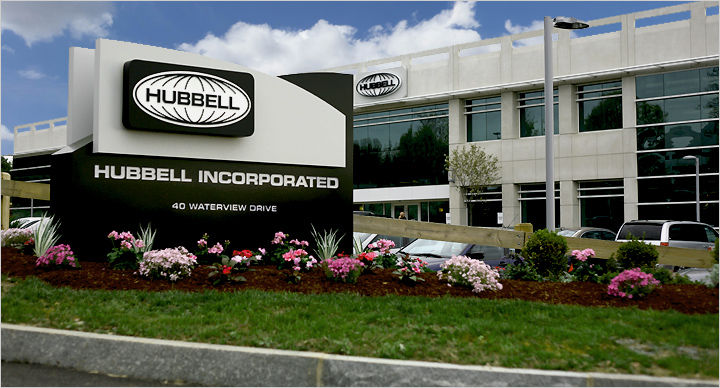 Hubbel HQ 2 Image